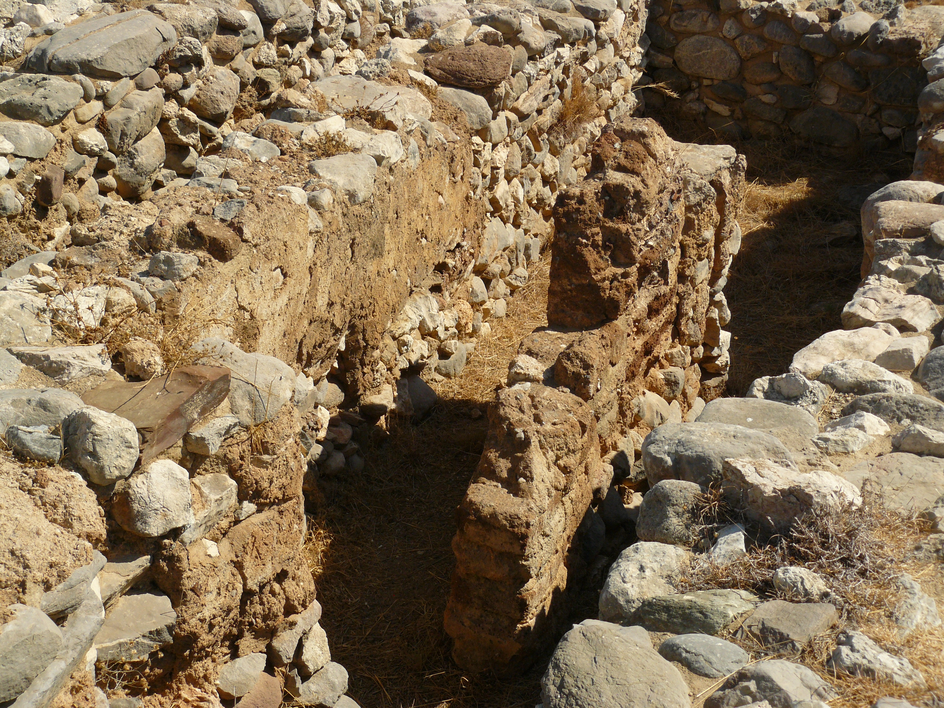 House AC in Gournia. Mud brick wall in the middle, on the left wall remains of plaster cover.